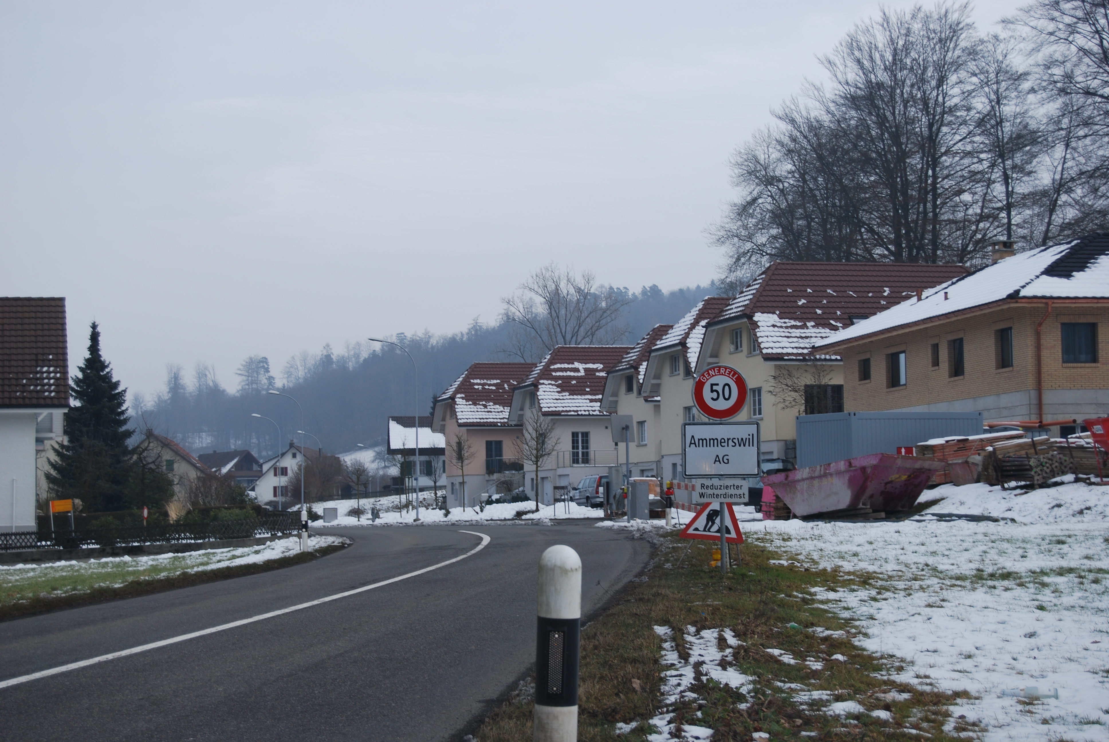 Village entry of Ammerswil, canton of Aargau, SwitzerlandEsperanto: Vilaĝeniro de Ammerswil, Kantono Argovio, Svislando